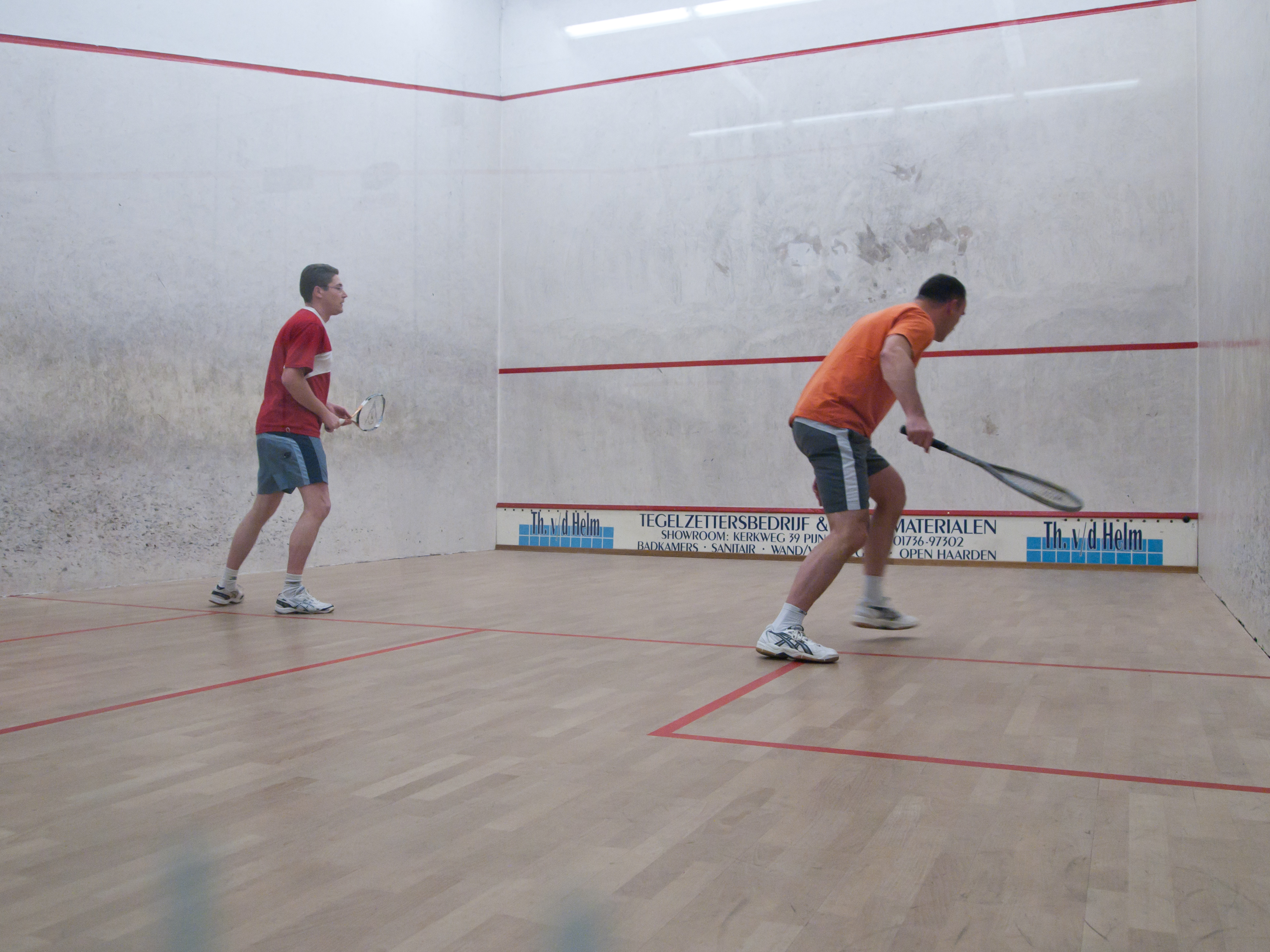 Took a self portrait today, while playing squash. It's not the quality I would like to have. Guess that's all in the 365 (one photo per day) game.